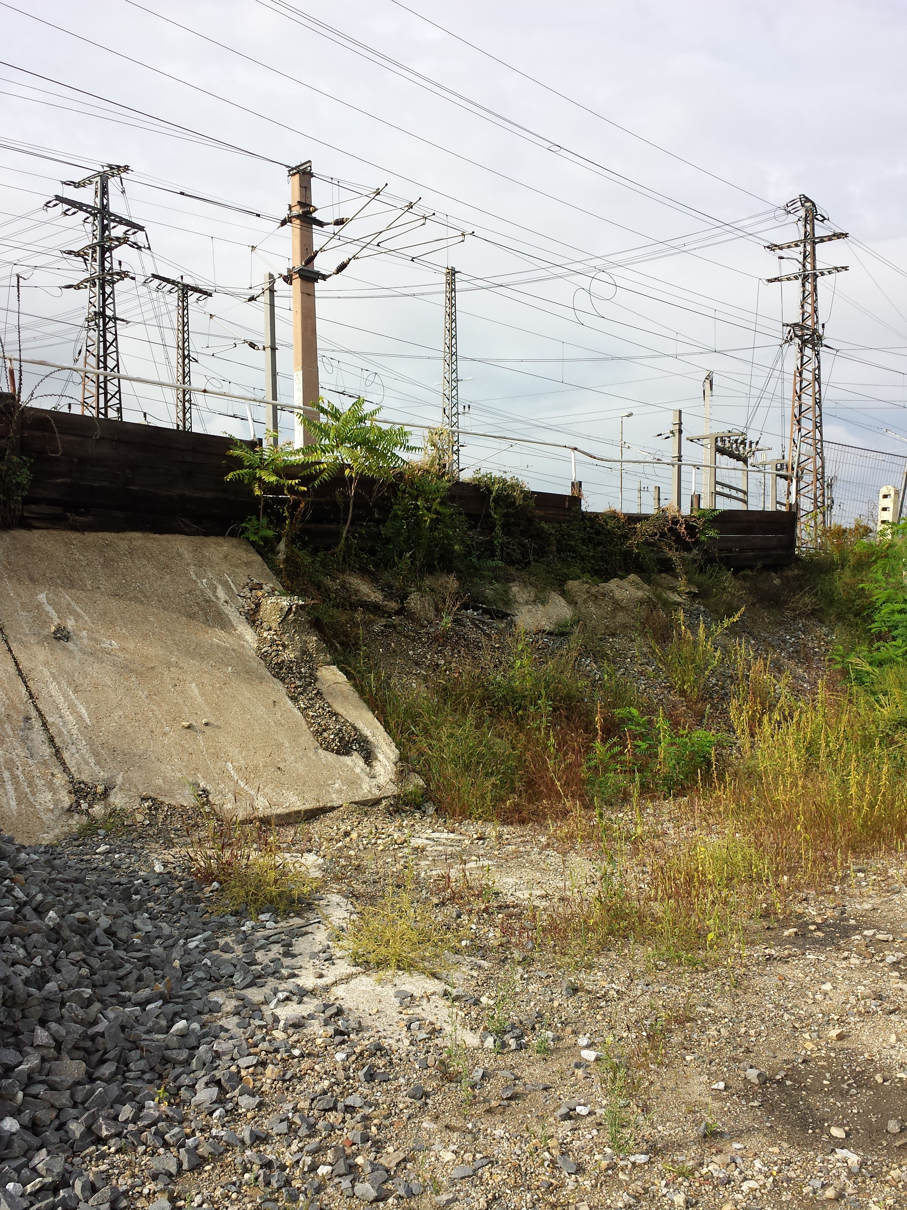 Habitat Taxon: Amaranthus albus (sensu Fischer et al. EfÖLS 2008 ISBN 978-3-85474-187-9) Location: Floridsdorf rail station, Vienna-Floridsdorf - ca. 160 m a.s.l. Habitat: ruderal area (abandoned coal bunker)